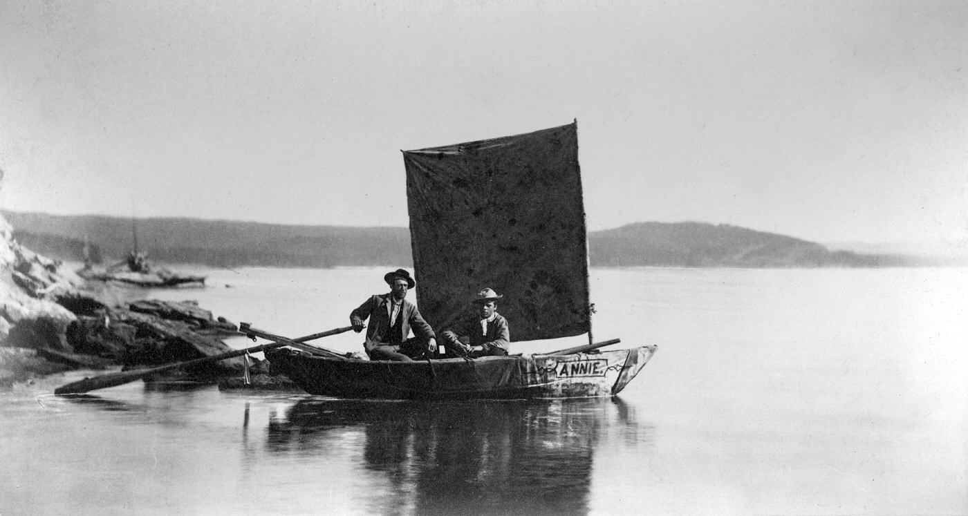 The Annie, first boat ever launched on Yellowstone Lake, William Henry Jackson photo taken during the 1871 Hayden Geological Survey